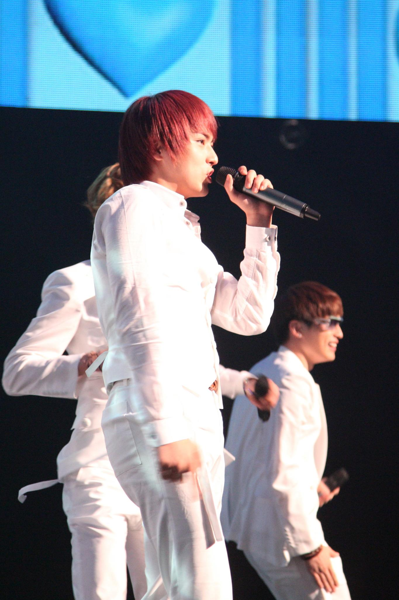 제국의아이들 @ Cyworld Dream Music Festival 싸이월드 드림 뮤직 페스티벌_06